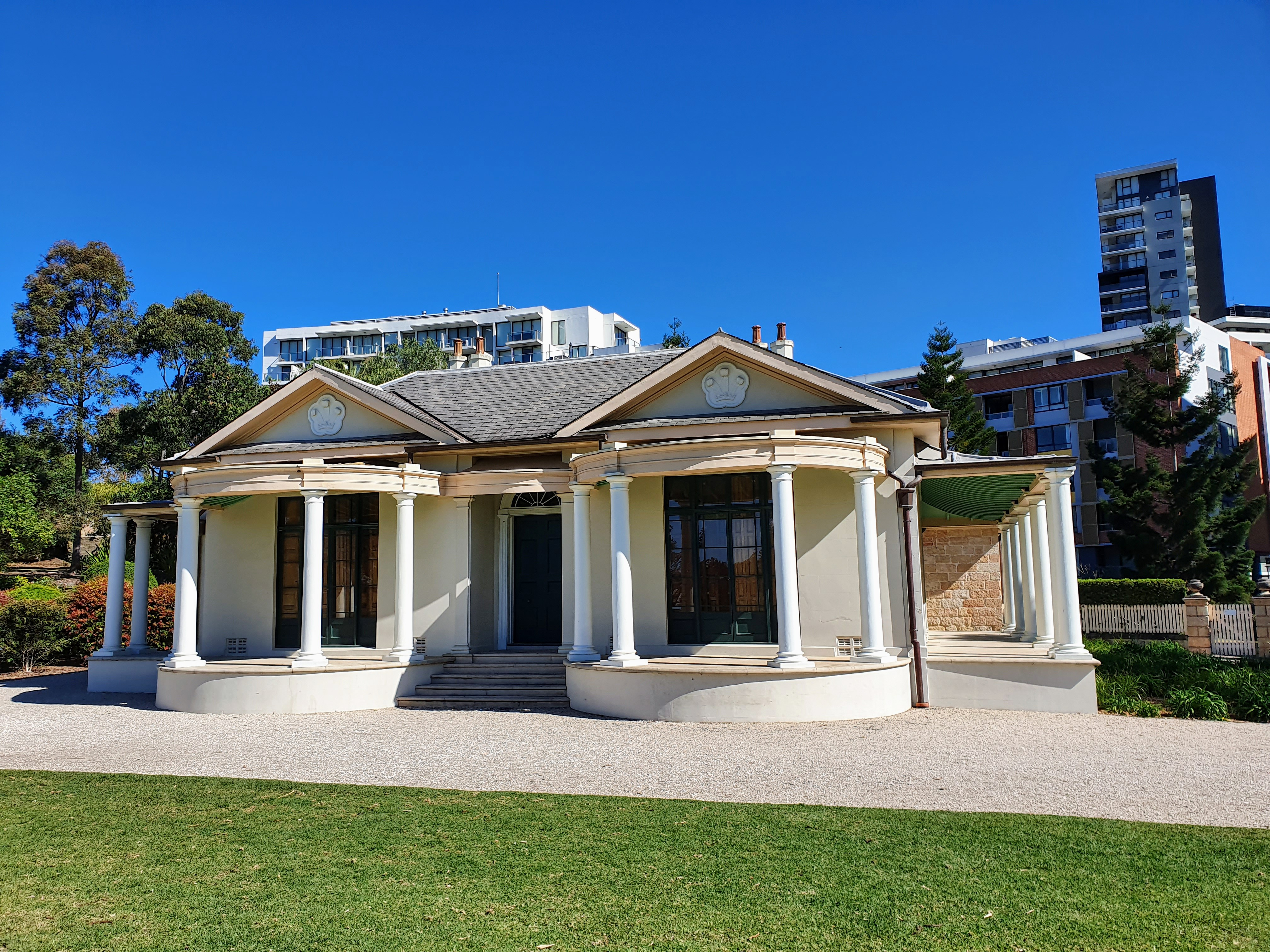 Tempe House in Wolli Creek, now a part of the Discovery Point Heritage Walk